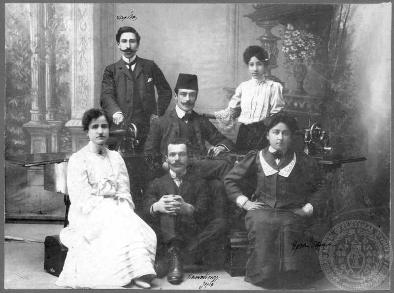 Greek revolutionary Suliotis with other